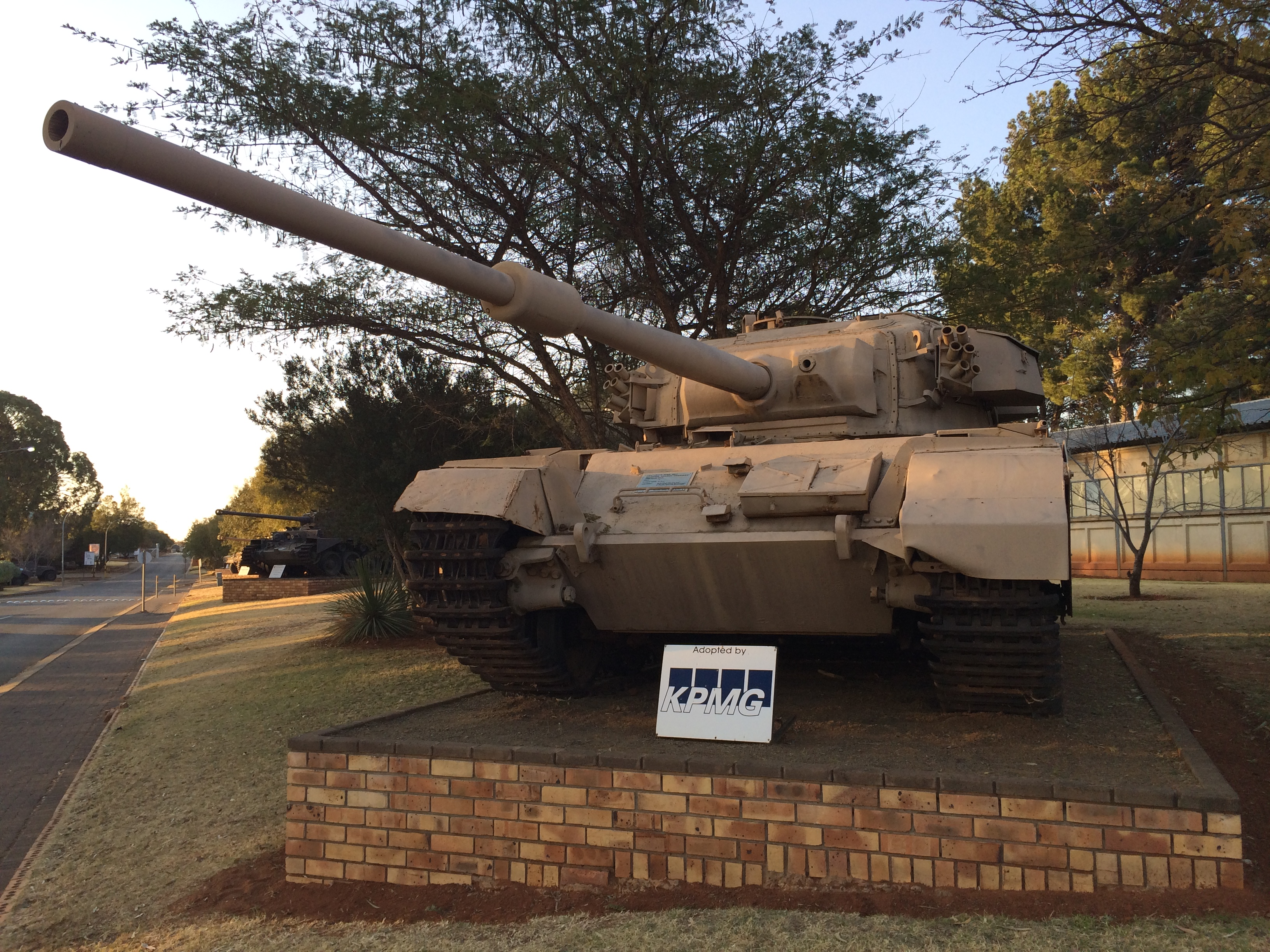 Description: Skokiaan Mk1 tank at the South African Armour Museum, Bloemfontein. This was the first of nine prototypes to be built and the only known survivor.